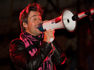 Raine Maida singing during Our Lady Peace's 2010 Clumsy/Spiritual Machines revival tour.